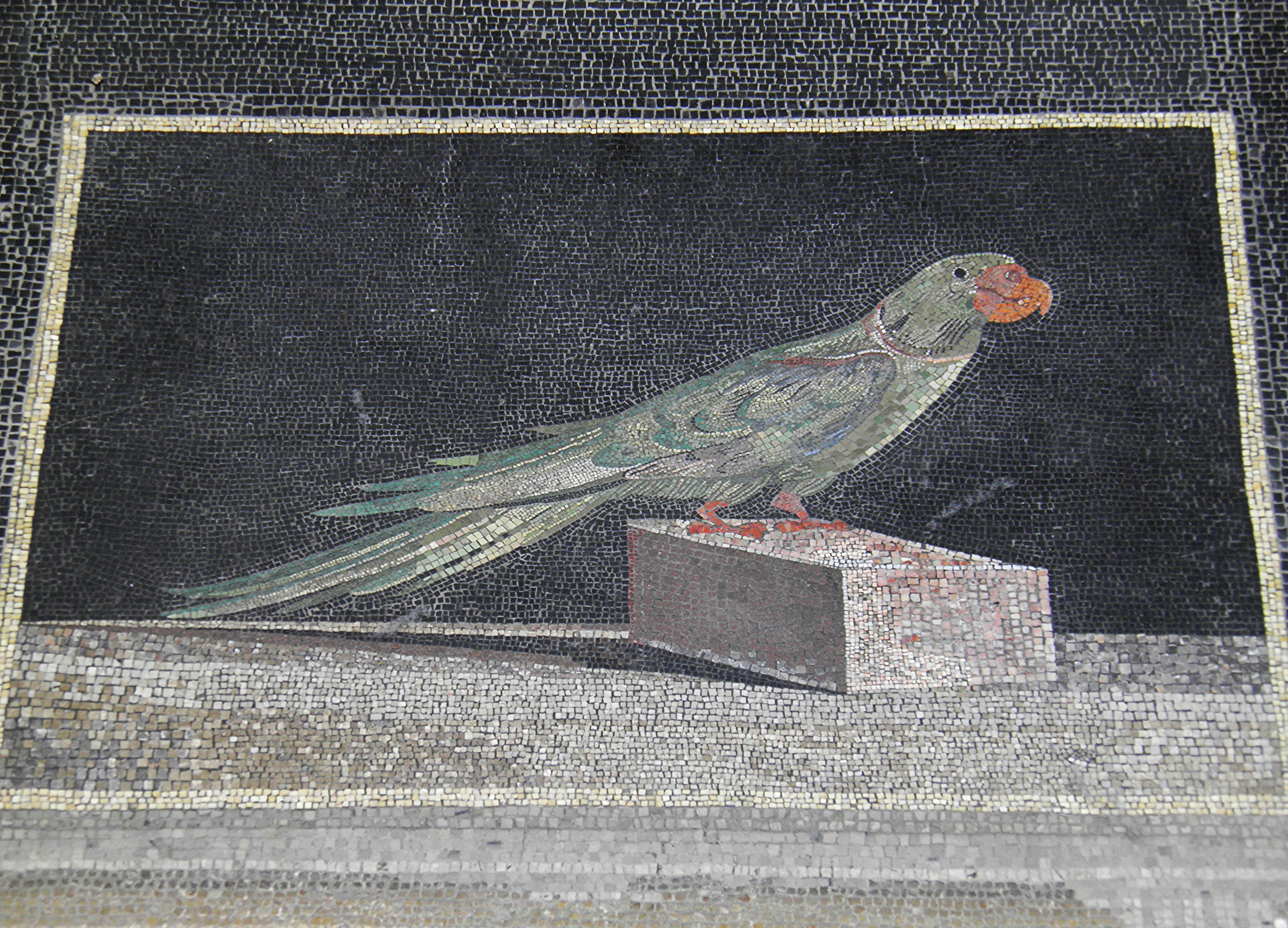 The species Alexandrine parakeet or Alexandrian parrot (scientific name Psittacula eupatria, noble fatherland or of noble ancestry) is named after Alexander the Great, who is said to have first sent several of the birds from the Punjab to the west, where they became popular as exotic pets of rich and noble families. The Hellenistic mosaic floor panel, made in Pergamon around the middle of the 2nd century BC (the time of Eumenes II and Attalus II), was taken from the "altar room" of Palace V of the Pergamon Acropolis. The type of mosaic found in some of Pergamon's ancient buildings is known as opus vermiculatum (Latin, worm-like work), a technique invented in Greece, in which images are made of rows of coloured tesserae (small cube-shaped pieces of stone, and later also of glass). The subtle colouring of the mosaics imitated painting. Individual motifs, including mythical figures, animals and plants were surrounded by dark tesserae, which highlight the vibrant colours. Often, outlines marked by rows of tessarae were used as contours or to further heighten the pictorial effect, as in drawing. This mosaic artist has used only colour and tone for his subject in a painterly manner, resembling trompe l'oeil realism.